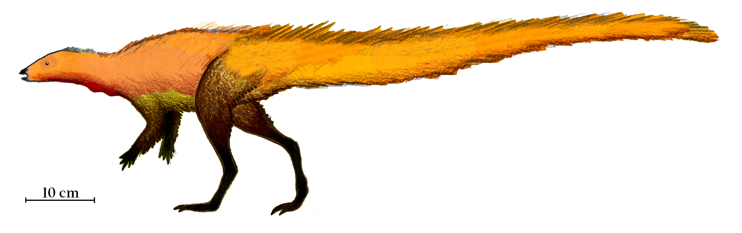 Leaellynasaura restoration